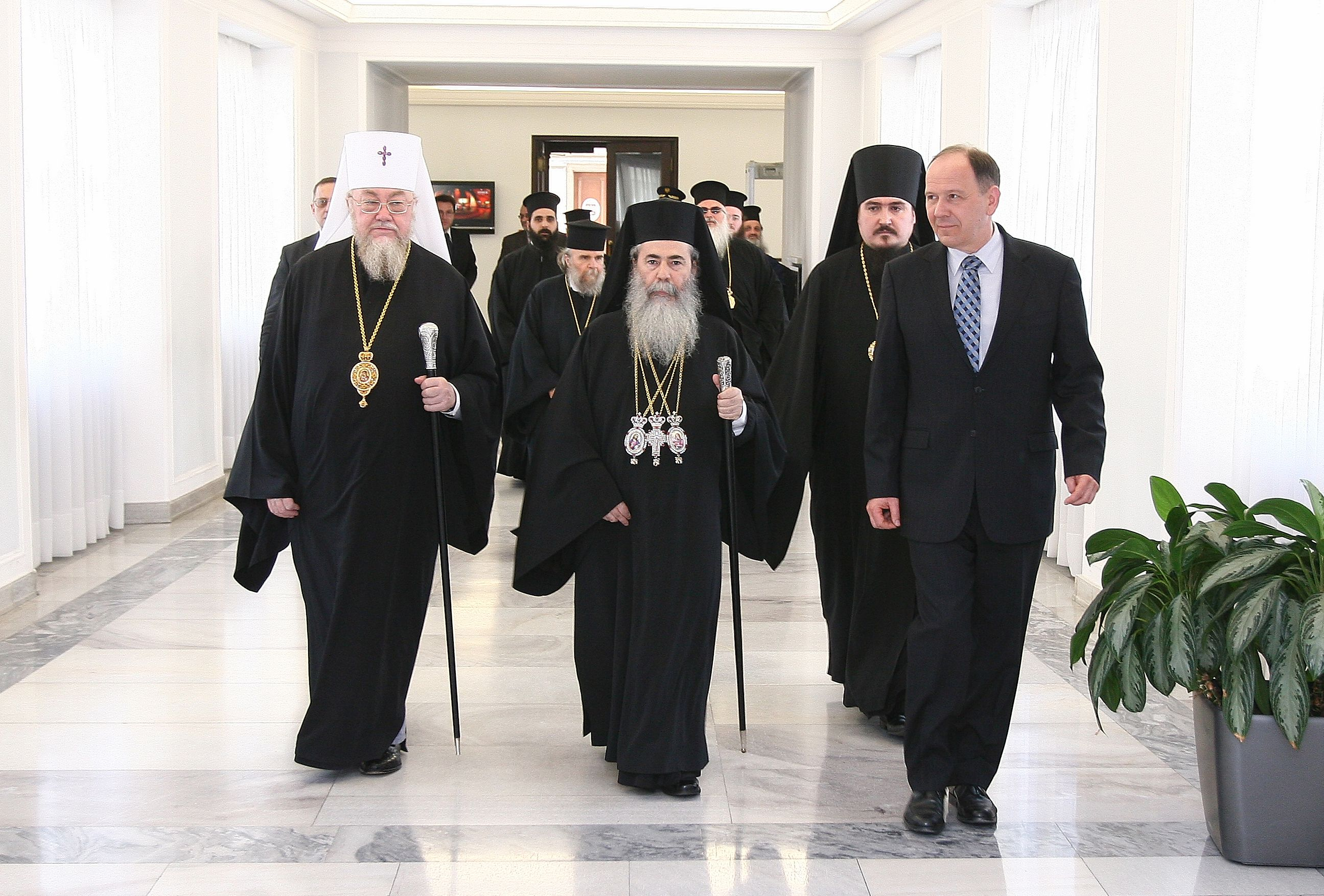 Patriarch Theophilos III of Jerusalem in the Polish Senate